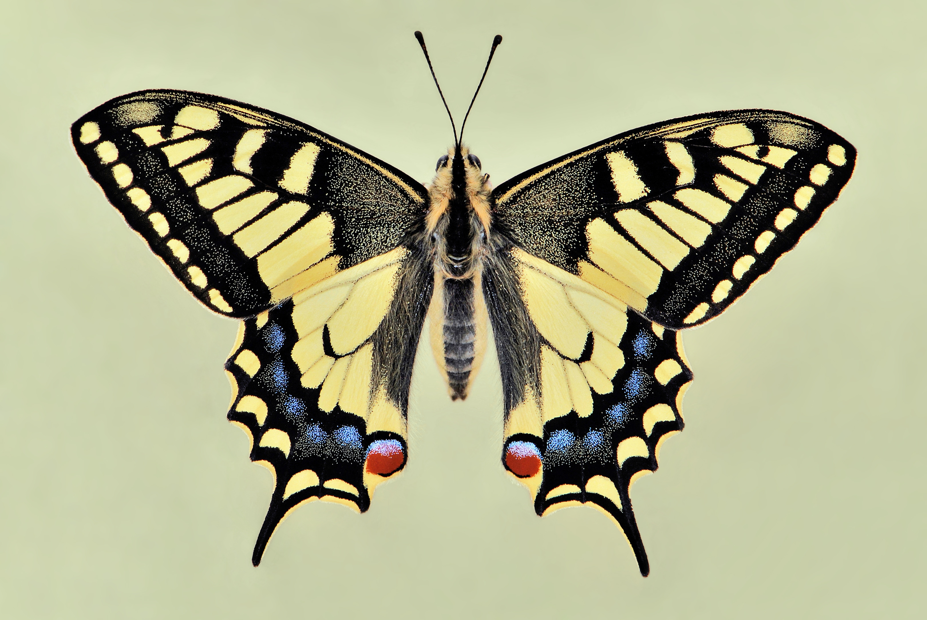 The Old World Swallowtail (Papilio machaon), is a butterfly of the family Papilionidae. The butterfly is also known as the Common Yellow Swallowtail or, simply, The Swallowtail (a common name applied to all members of the family). It is the type species of the genus Papilio and occurs throughout the Palearctic region in Europe and Asia; it also occurs across North America, and thus is not restricted to the Old World, despite the common name.